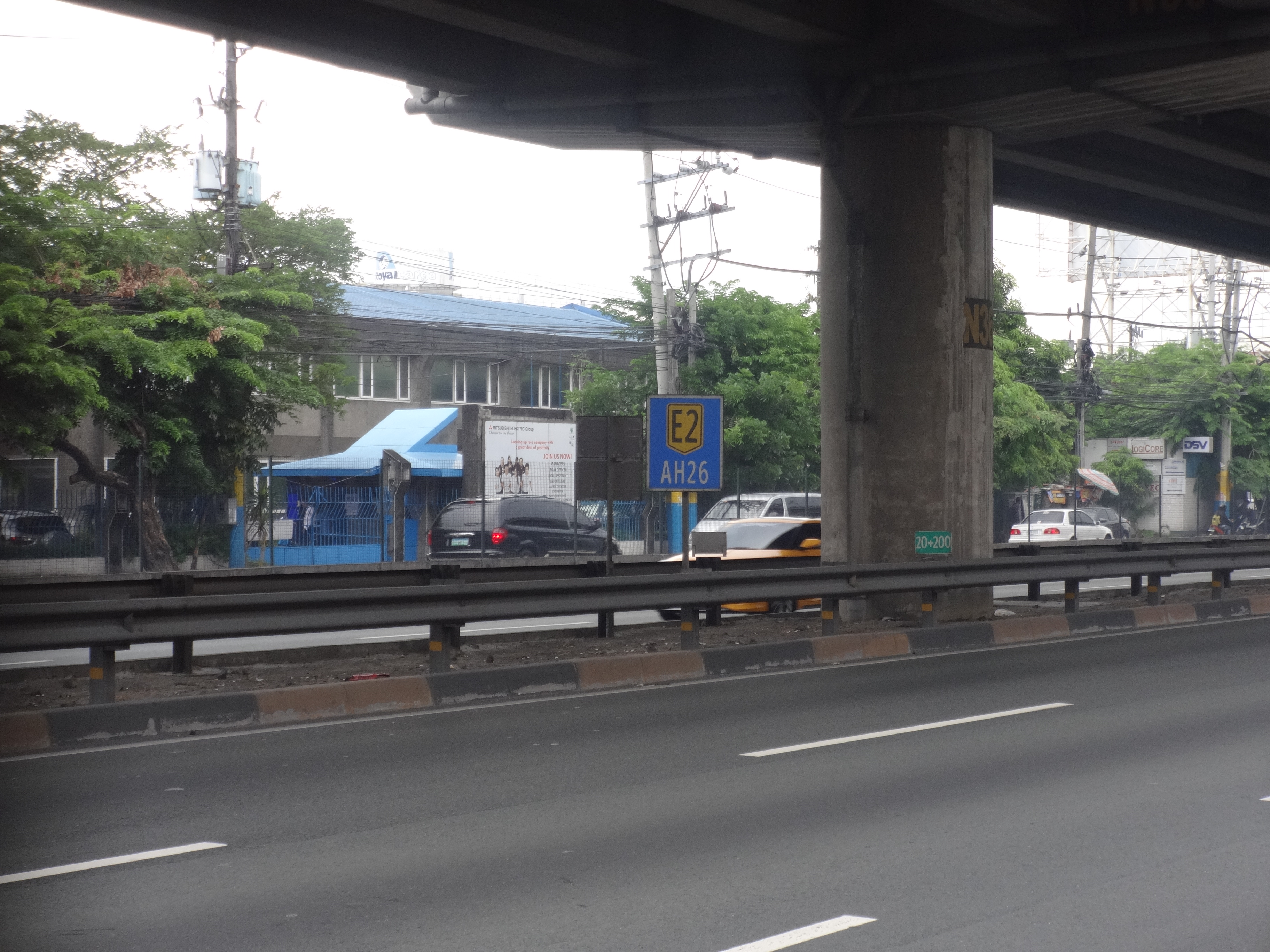 SLEX Skyway - E2 AH26 (national Road) marker